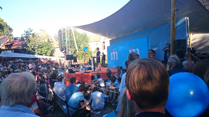 Swedish politician Anna Kinberg Batra (m) speaks at Almedalsveckan in Visby, 2015.